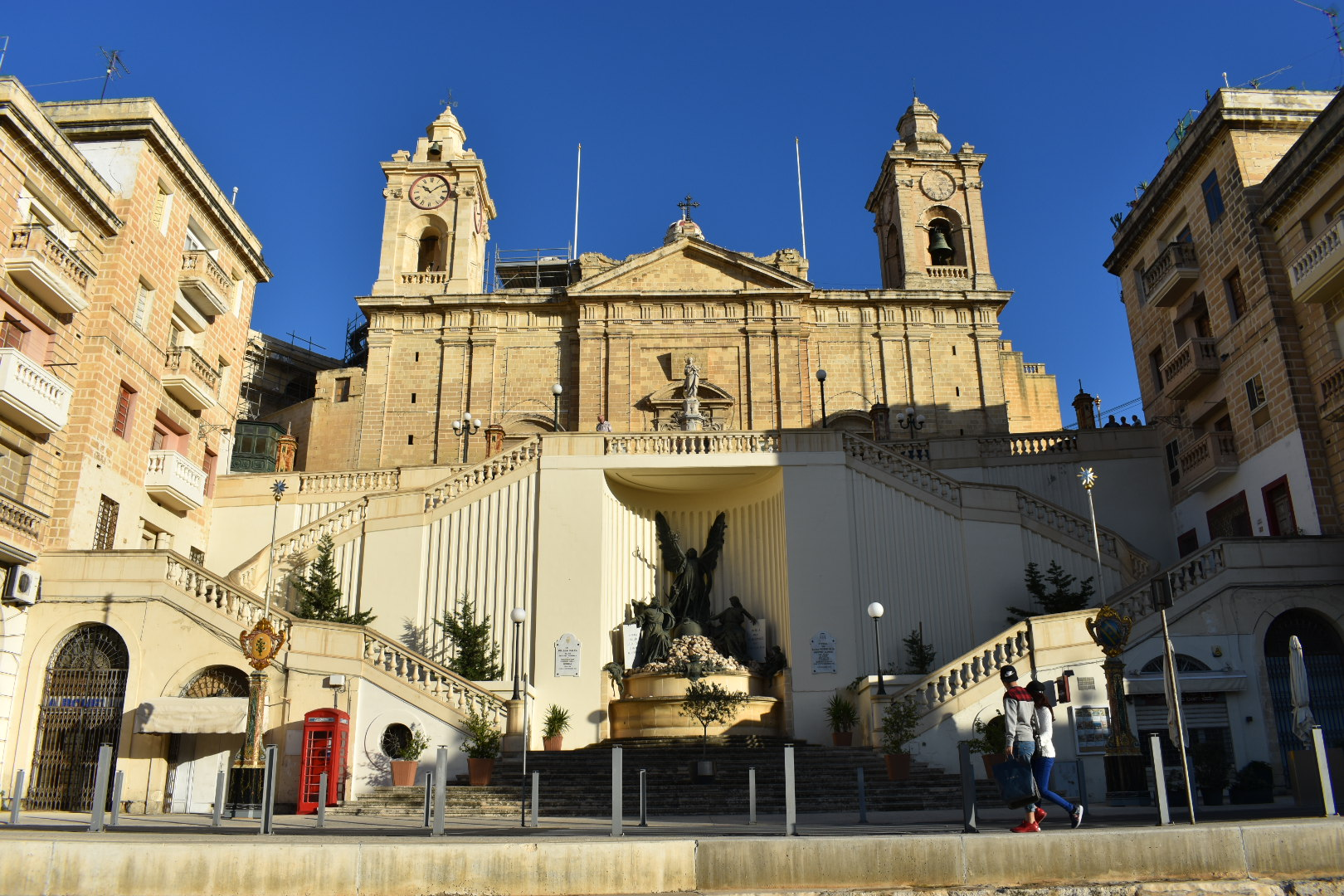 Parish Church of the Immaculate Conception This media is about Maltese cultural property with inventory number 00669.